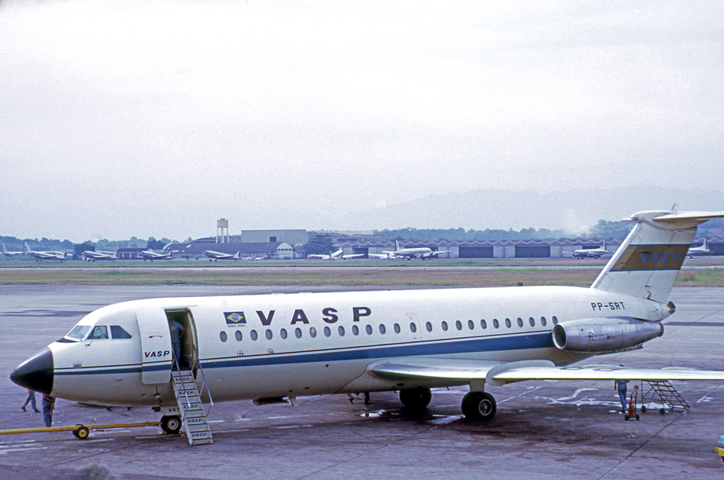 BAC 1-11 422 PP-SRT of VASP at Rio Galeao in 1972